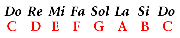 Equivalence between Anglo and Latino notations.